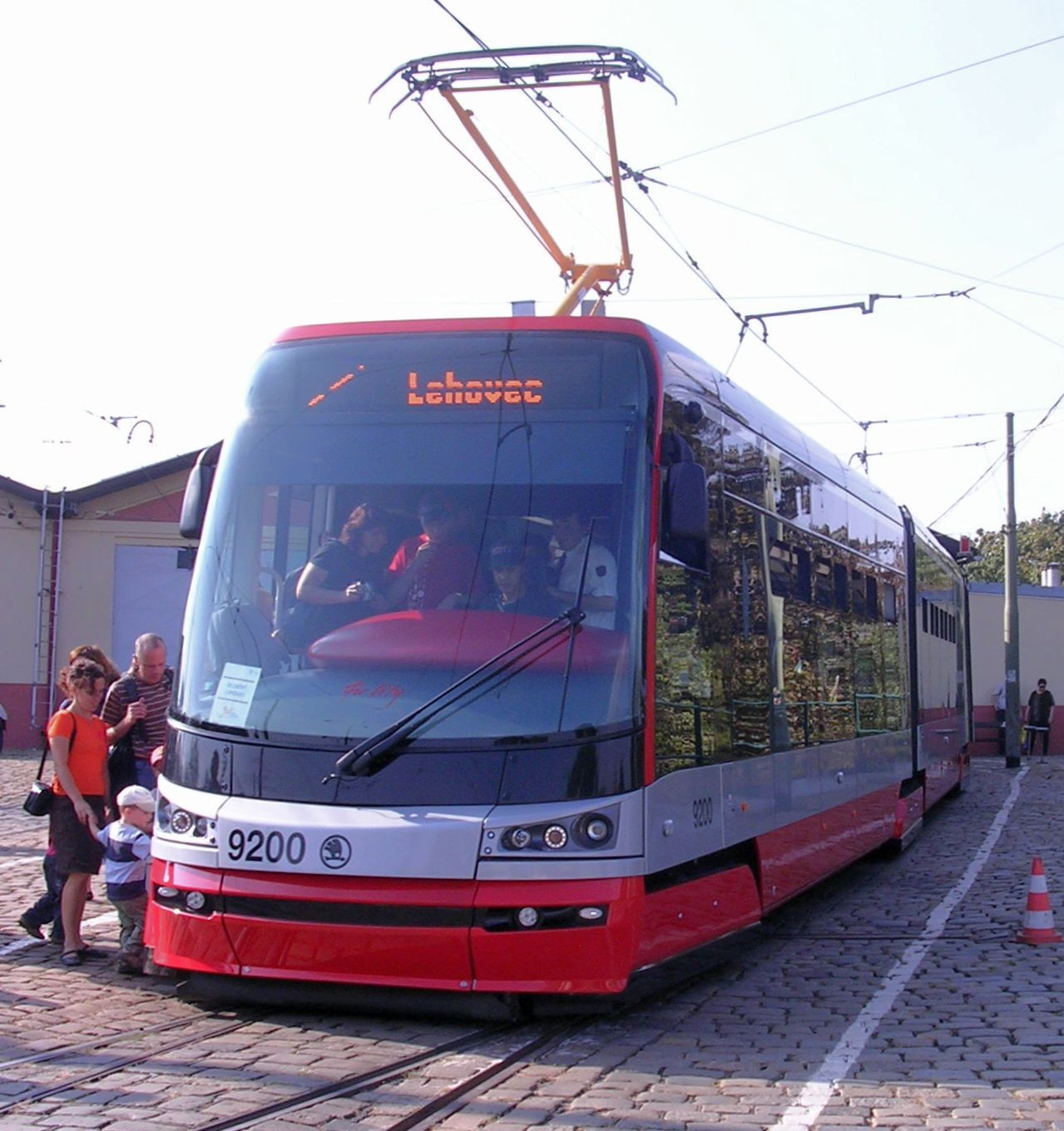 Střešovice, Prague, the Czech Republic. Open Doors Day in Střešovice tram depot and transport museum. Tram Škoda 15T. - Google Maps - Google Earth